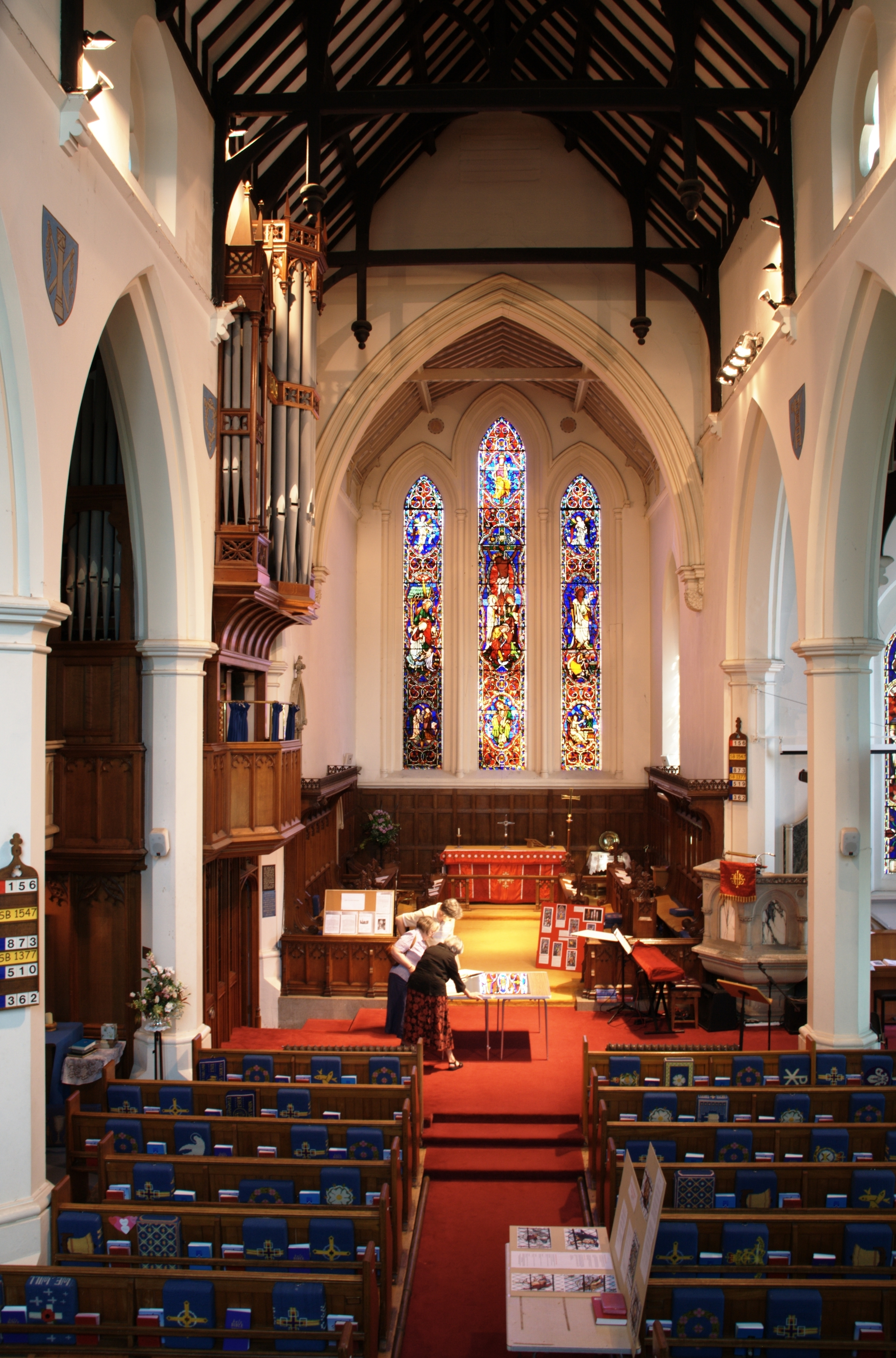 The east window. St. Mary's Church, Hanwell. W7